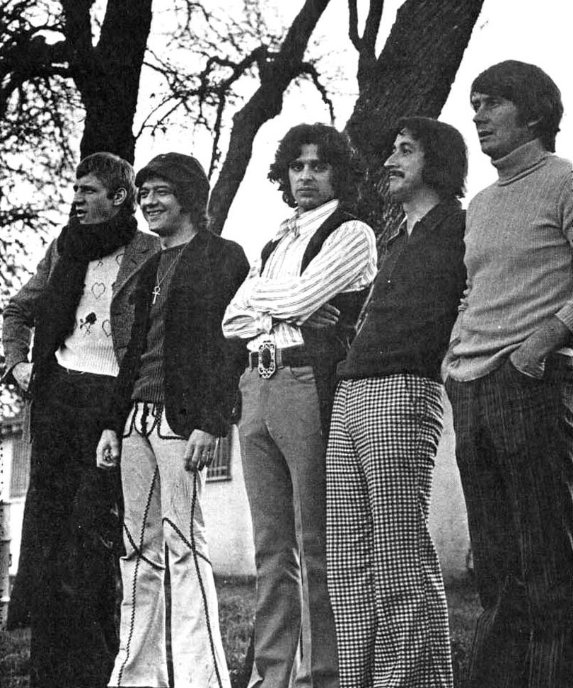 Promotional photograph of The Beau Brummels, taken in early 1974. From left: John Petersen, Ron Elliott, Sal Valentino, Ron Meagher, Declan Mulligan (the band's 1974 lineup).